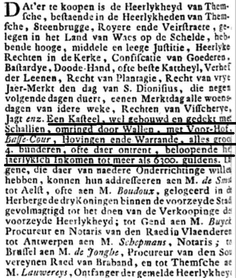 Annonce verkoop kasteel van Temse